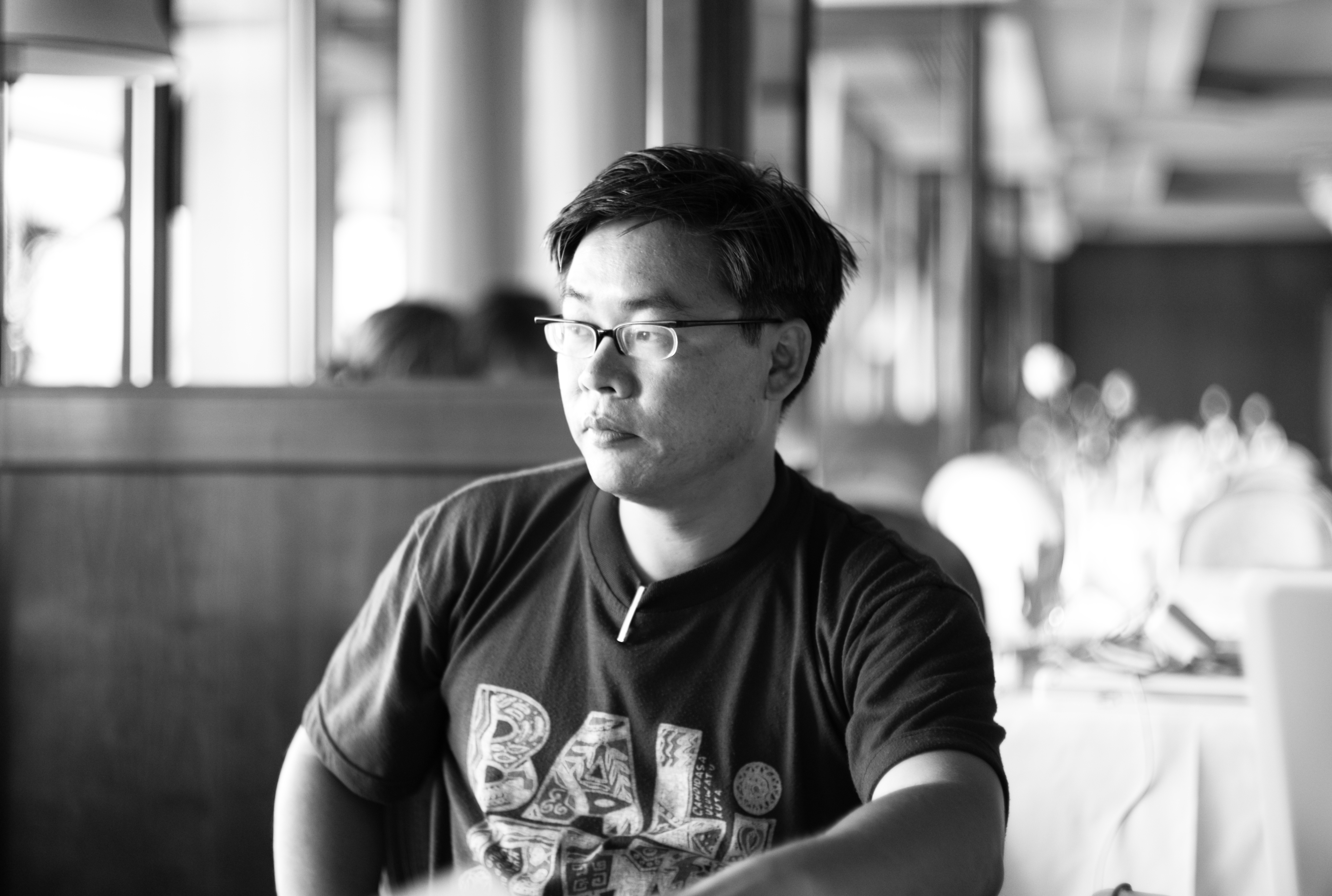 Photograph of Lawrence Liang - Lawrence Liang is an Indian legal researcher and lawyer based in the city of Bangalore, who is known for his legal campaigns on issues of public concern. He is a co founder of the Alternative Law Forum, and, as of 2006, has emerged as a spokesperson against the politics of "intellectual property".